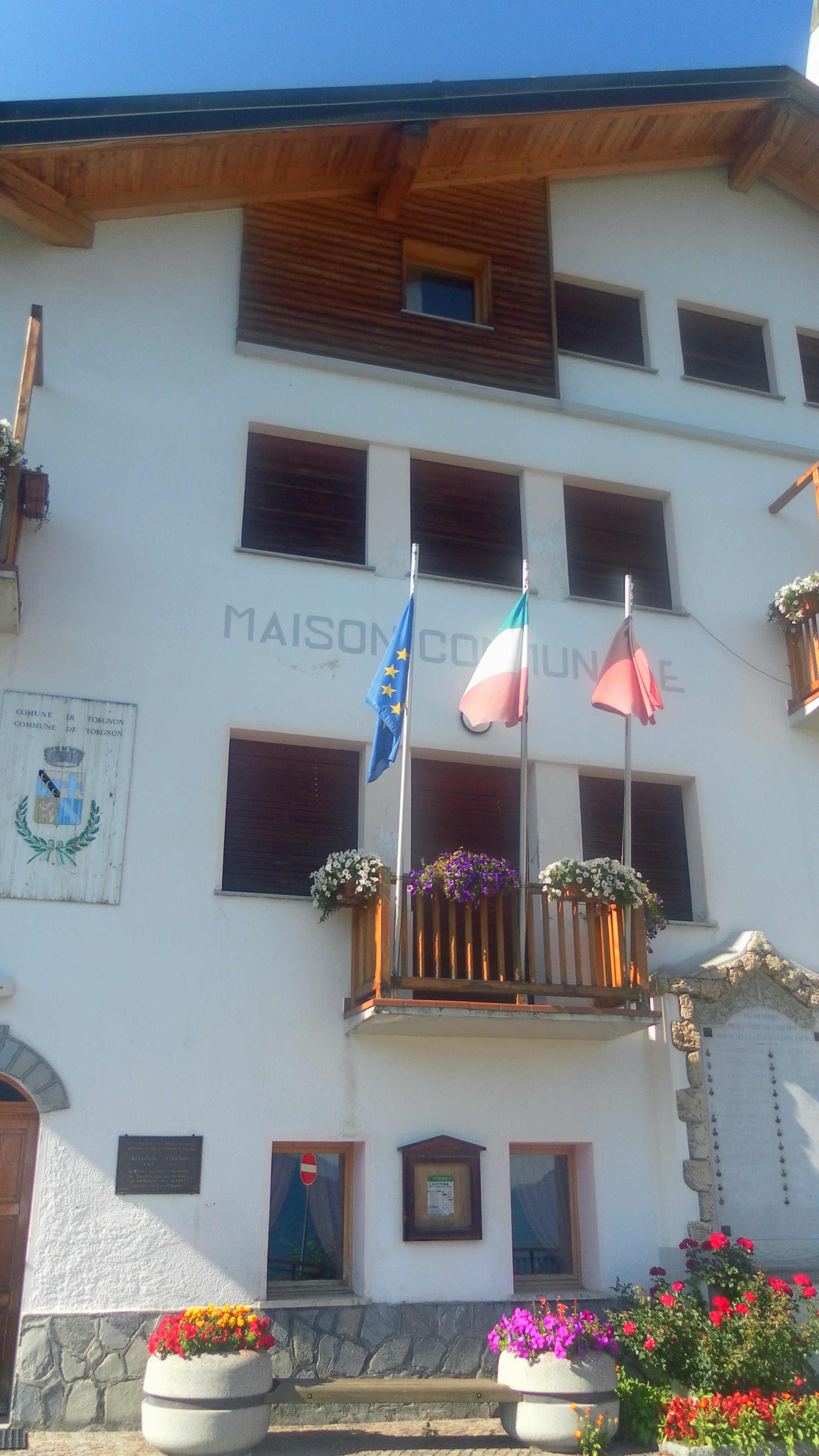 Town hall of Torgnon, in Aosta Valley, Italy.